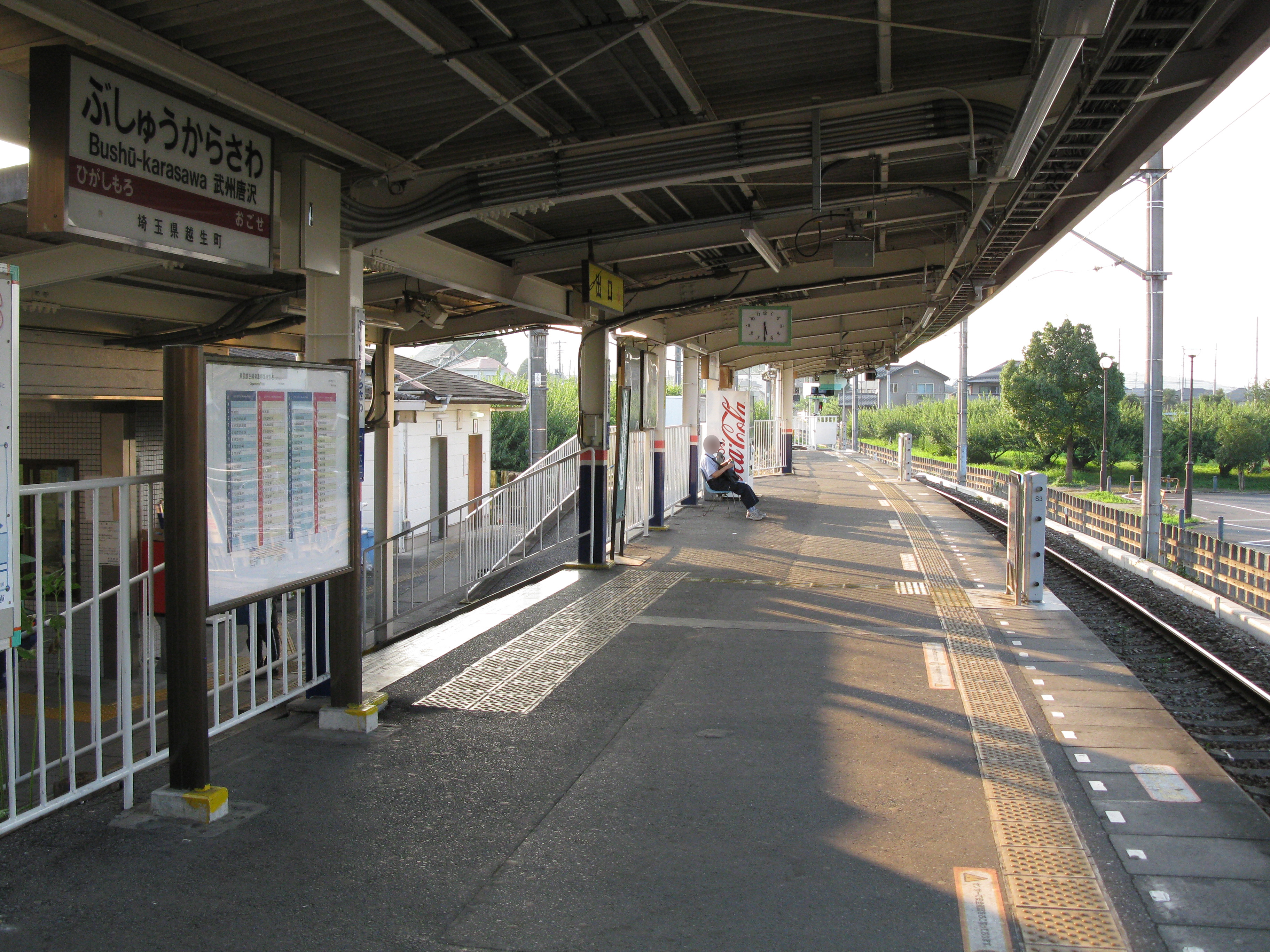 The platform at Bushu-Karasawa Station on the Tobu Ogose Line in Saitama Prefecture, Japan